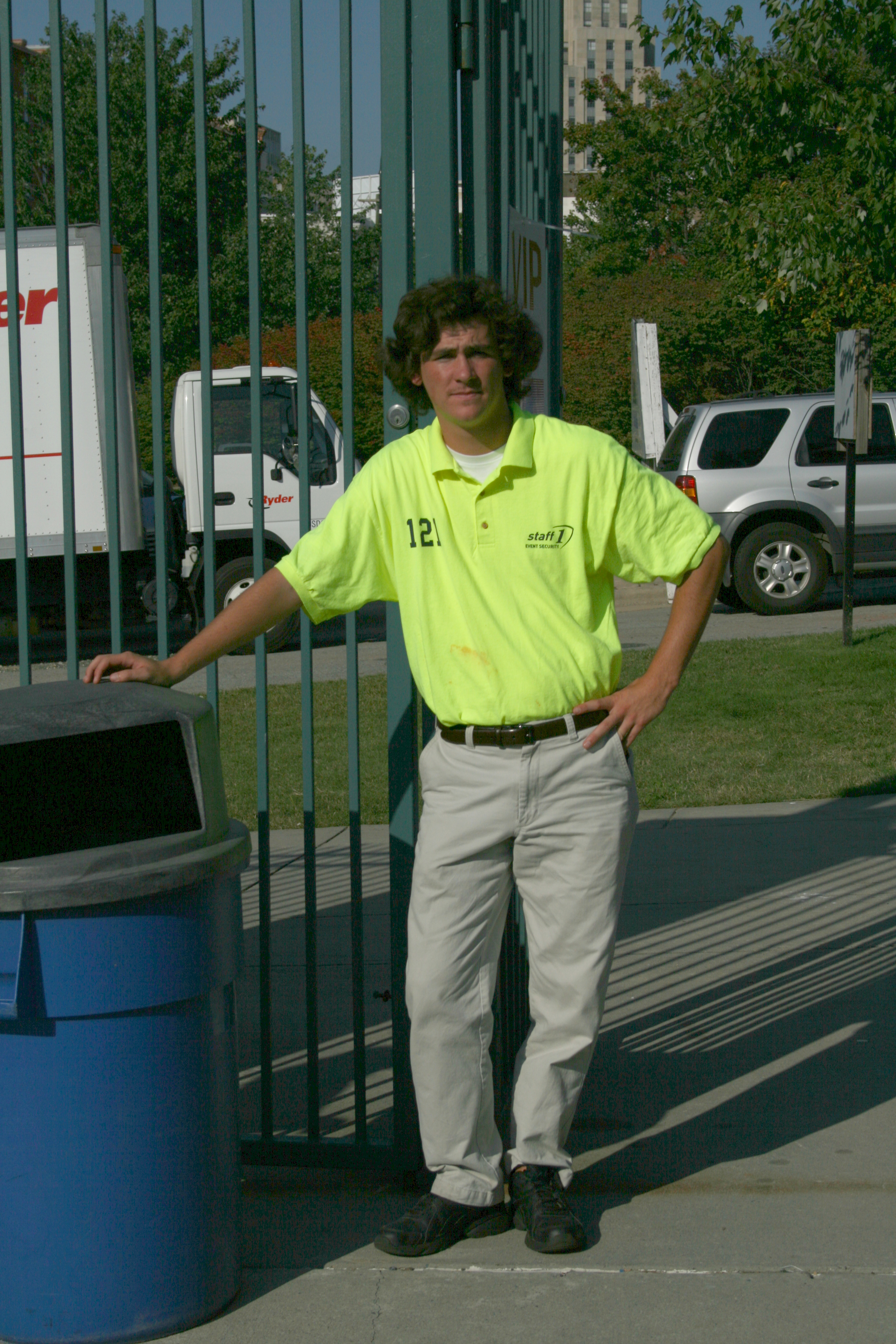 A security guard at the 13th Annual World Beer Festival held at the Durham Bulls Athletic Park in Durham, North Carolina.